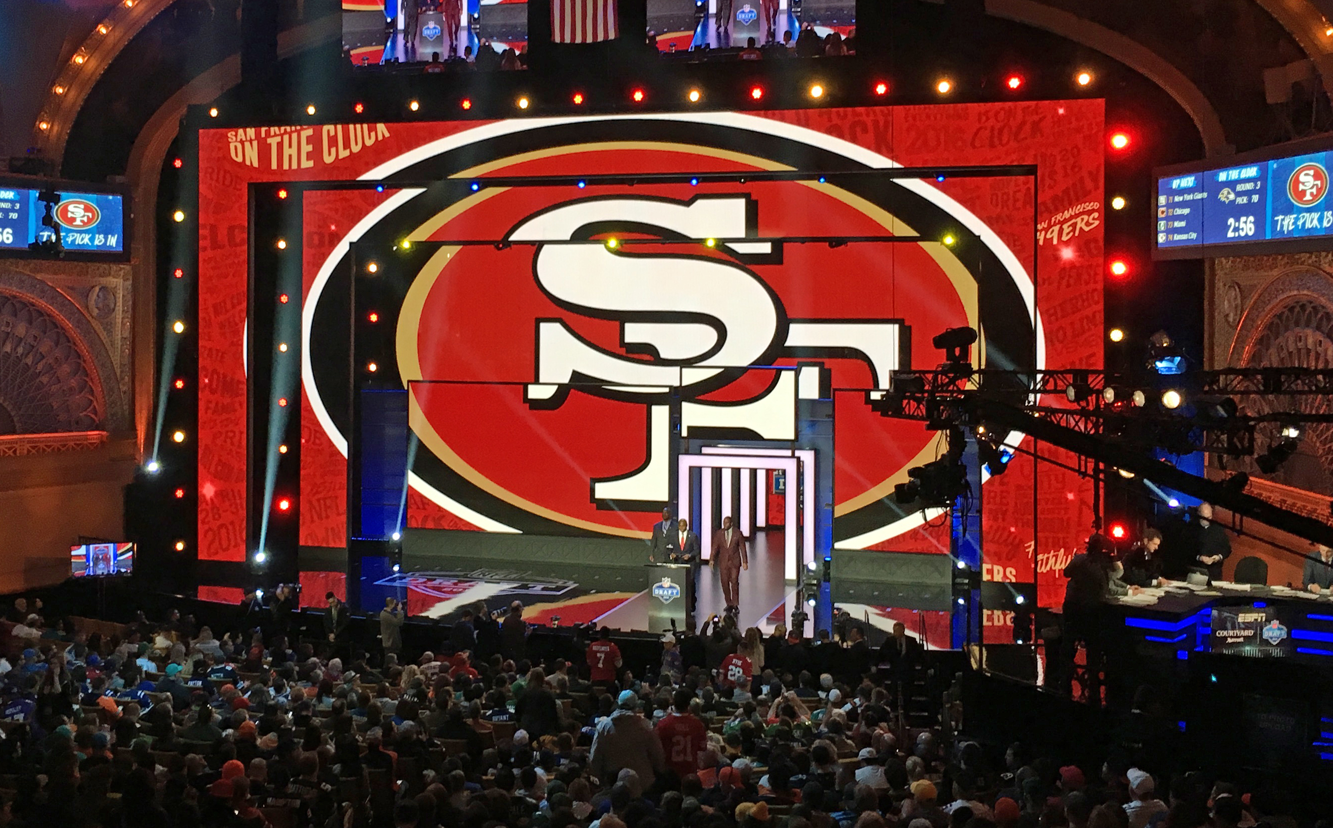 NFL Draft, Chicago 2016